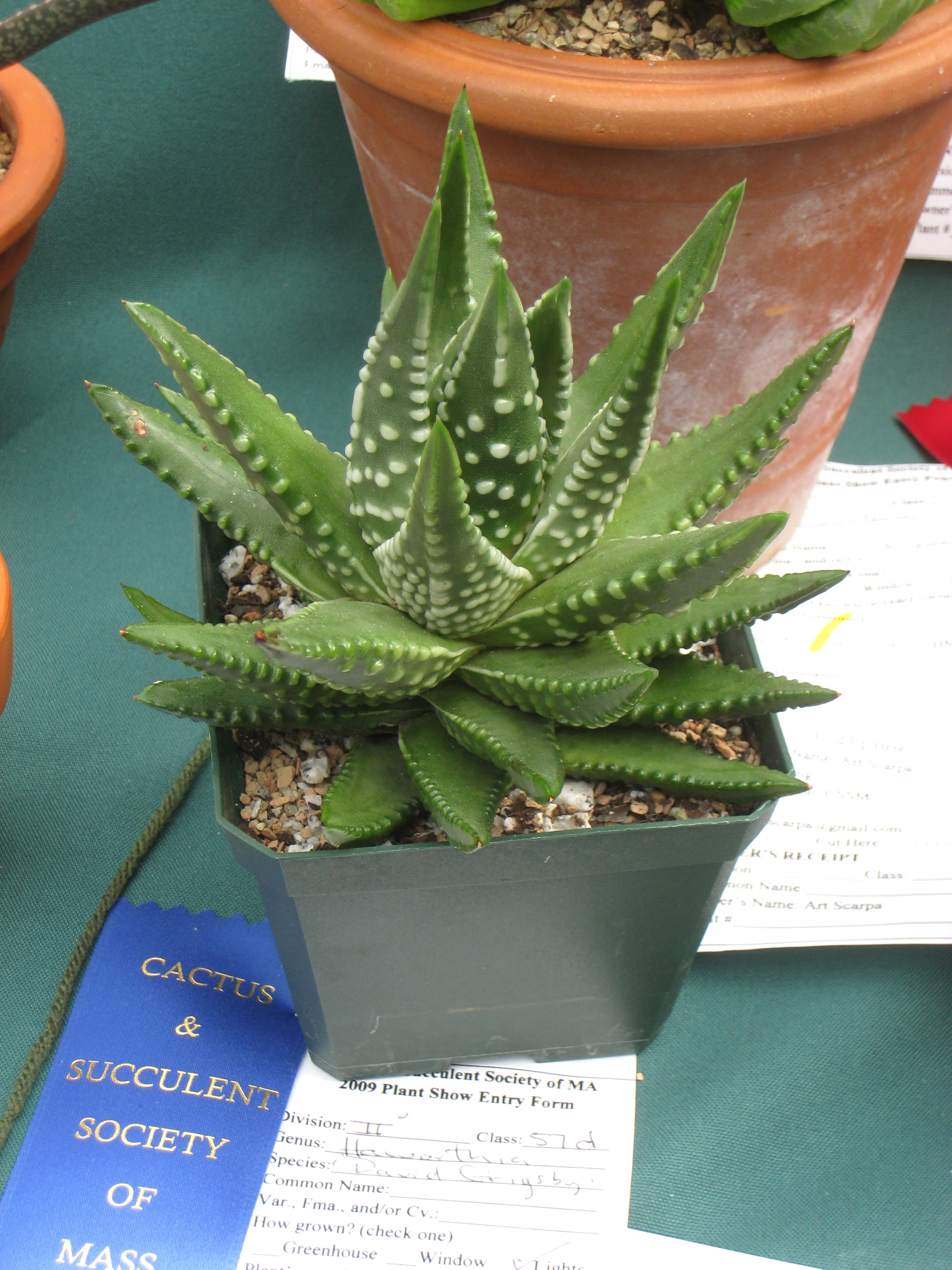 Haworthia maxima (= Haworthia pumila) 'David Grigsby', in the Tower Hill Botanic Garden, Boylston, Massachusetts, USA.